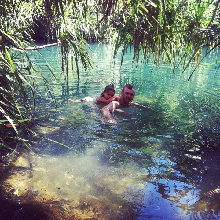 Eve and Leigh swimming in the Lower Pool of Berry Springs Swimming Pools, Northern Territory Australia